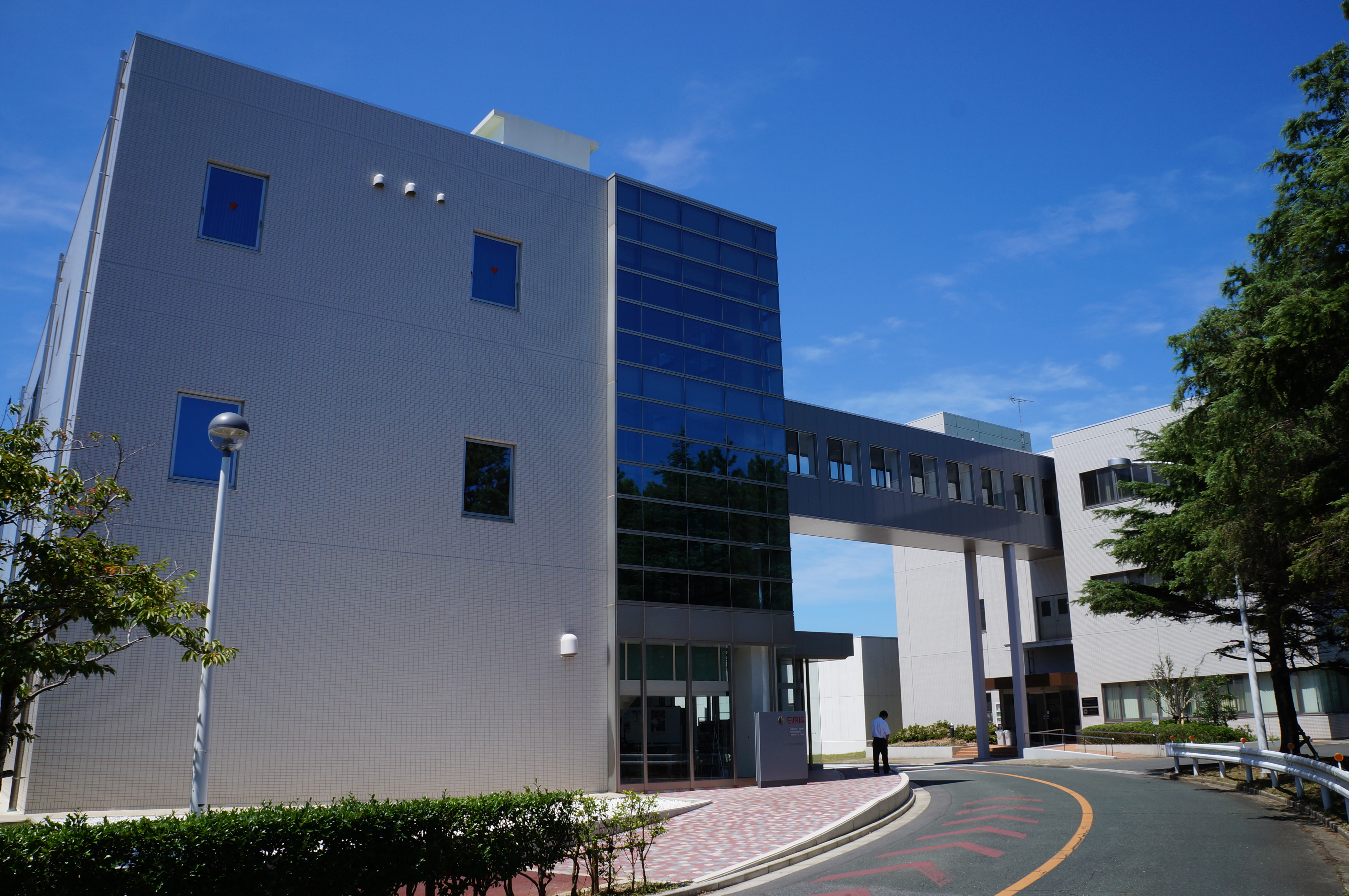 EIIRIS and Venture Business Laboratory in Toyohashi University of Technology